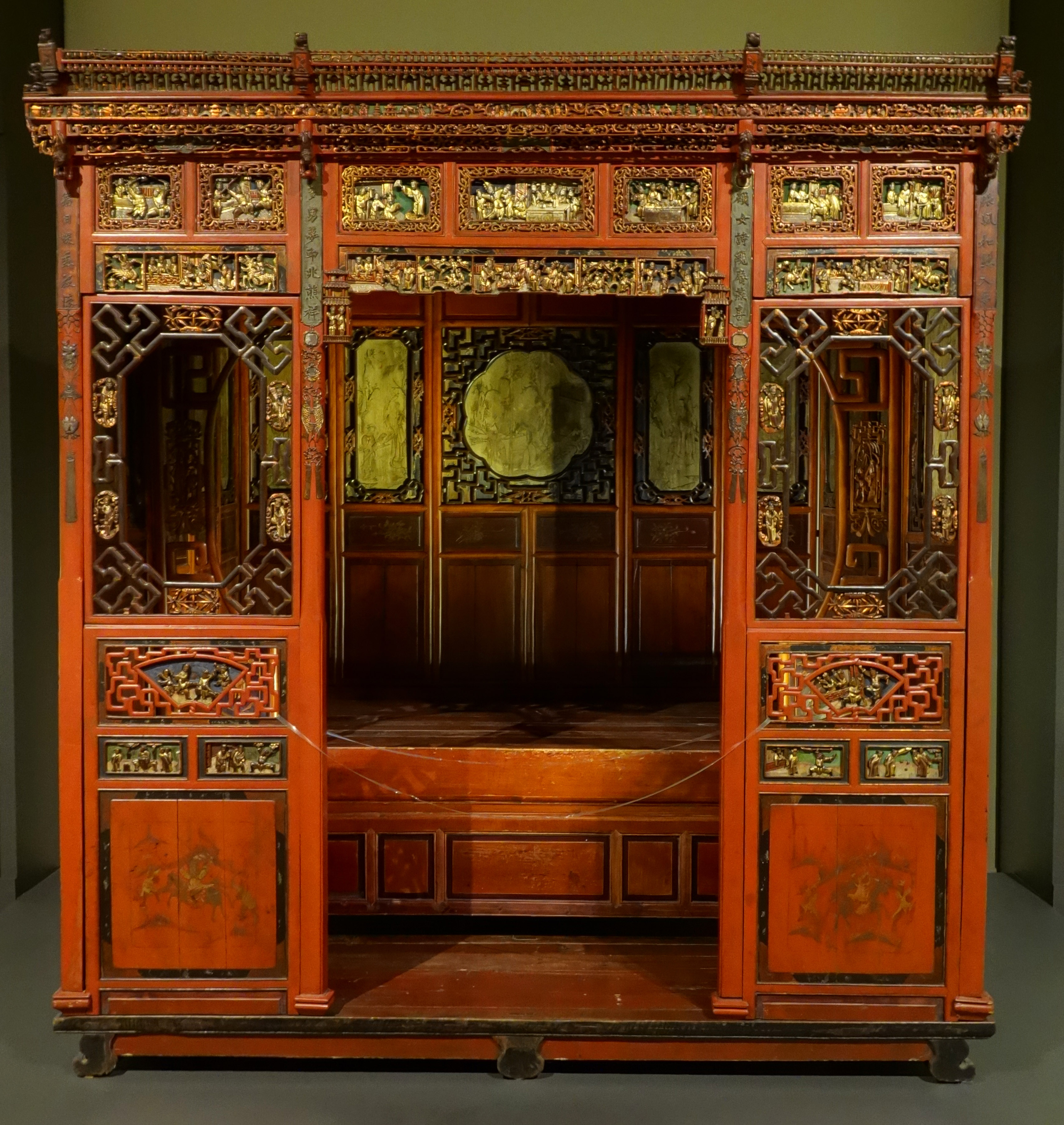 Chinese canopy bed, Qing dynasty, Zheijang or Jiangsu province. Carved, lacquered and gilded wood, late 19th or early 20th century. Montreal Museum of Fine Arts, inv. no. 2009.84